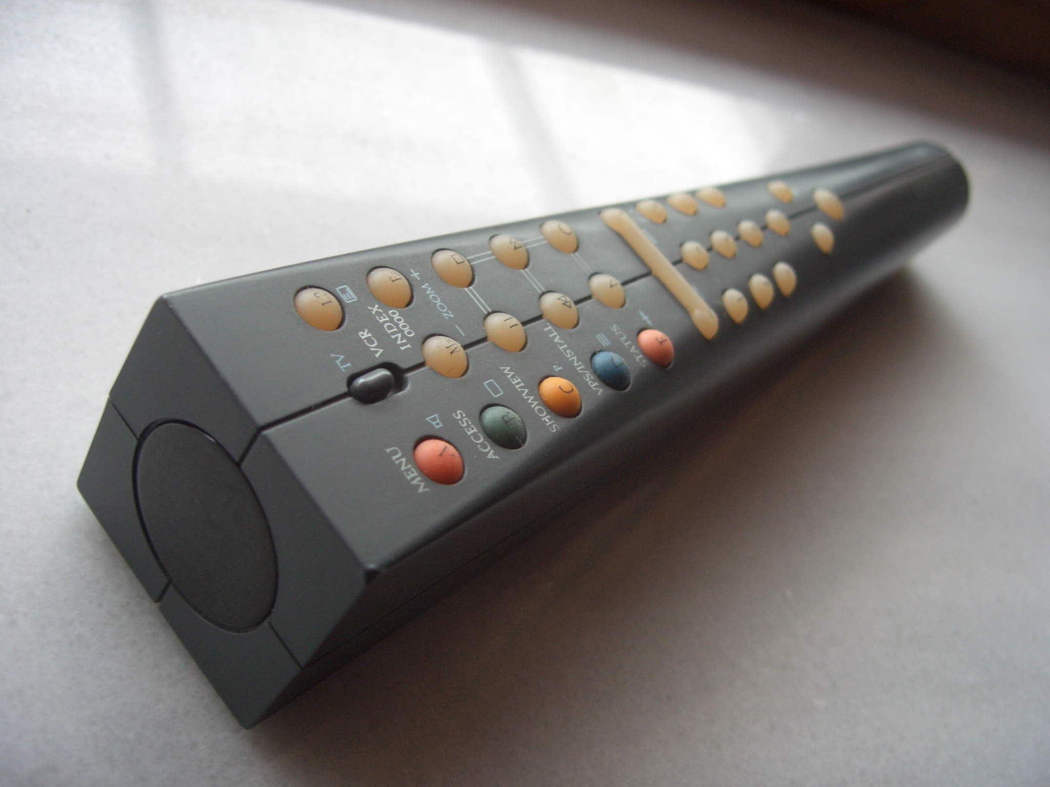 Remote control by Phillipe Starck for Thomson Photo: Christos Vittoratos